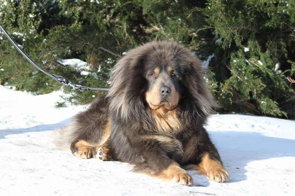 j.CACx1, CACx36, R.CACIBx5, CACIBx8, BOBx10, 6xUKRAINIAN CHAMPION, GRAND CHAMPION OF UKRAINE, SUPER GRAND CHAMPION OF UKRAINE, BBB, BELARUS CHAMPION, BELARUS GRAND CHAMPION, CHAMPION OF MOLDOVA, GRAND CHAMPION OF MOLDOVA, SUPER GRAND CHAMPION OF MOLDOVA, CHAMPION OF GEORGIA, CHAMPION OF AZERBAIJAN, CHAMPION OF BULGARIA, GRAND CHAMPION OF BULGARIA, CHAMPION OF MONTENEGRO, GRAND CHAMPION OF MONTENEGRO, CHAMPION OF MACEDONIA, CHAMPION OF ROMANIA, CHAMPION OF CYPRUS, CHAMPION OF FHILIPPINE, GRAND CHAMPION OF FHILIPPINE, CHAMPION OF EL SALVADOR, GRAND CHAMPION OF EL SALVADOR, CHAMPION OF COSTA RICA, СHAMPION OF CUBA, CHAMPION OF CHILI, CHAMPION OF HONDURAS, CAUCASIAN CHAMPION, BALKAN CHAMPION, CHAMPION OF BASARABIA, CHAMPION OF CARIBE AND CENTRAL AMERICA, MULTICHAMPION. Выполнили норму INTERCHAMPION. HD-A/A, ED-0/0.